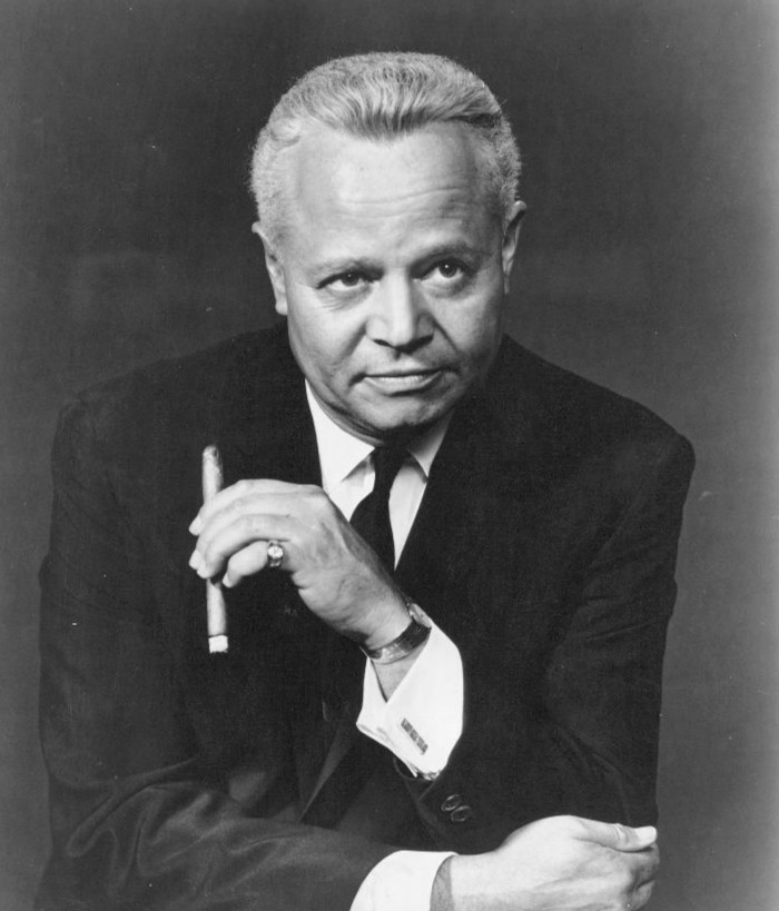 Photo of entertainer Billy Daniels in 1966.